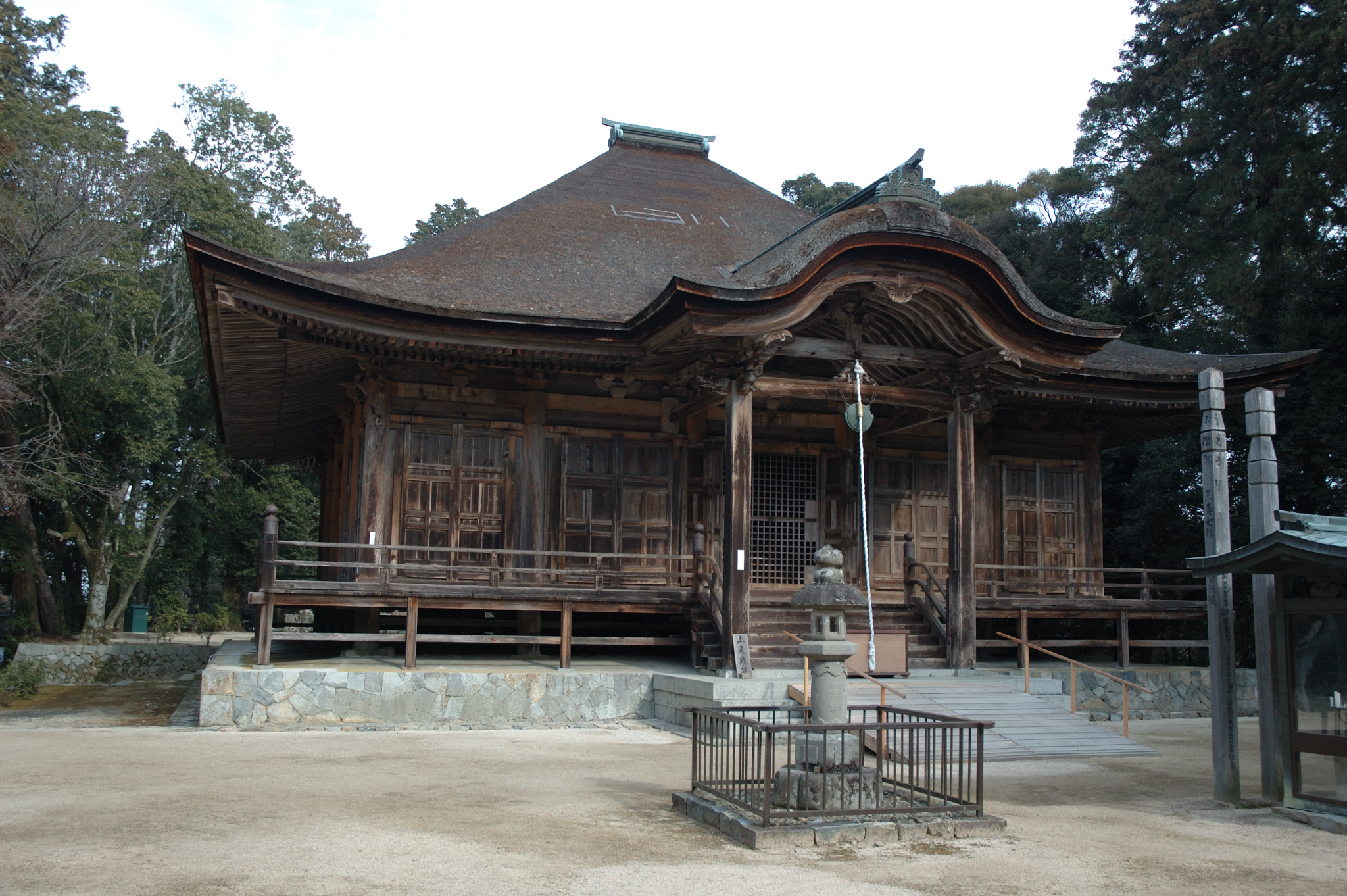 Main hall of Honzan-ji temple (built in 1350, Japan's national important cultural property), Okayama Pref., Japan